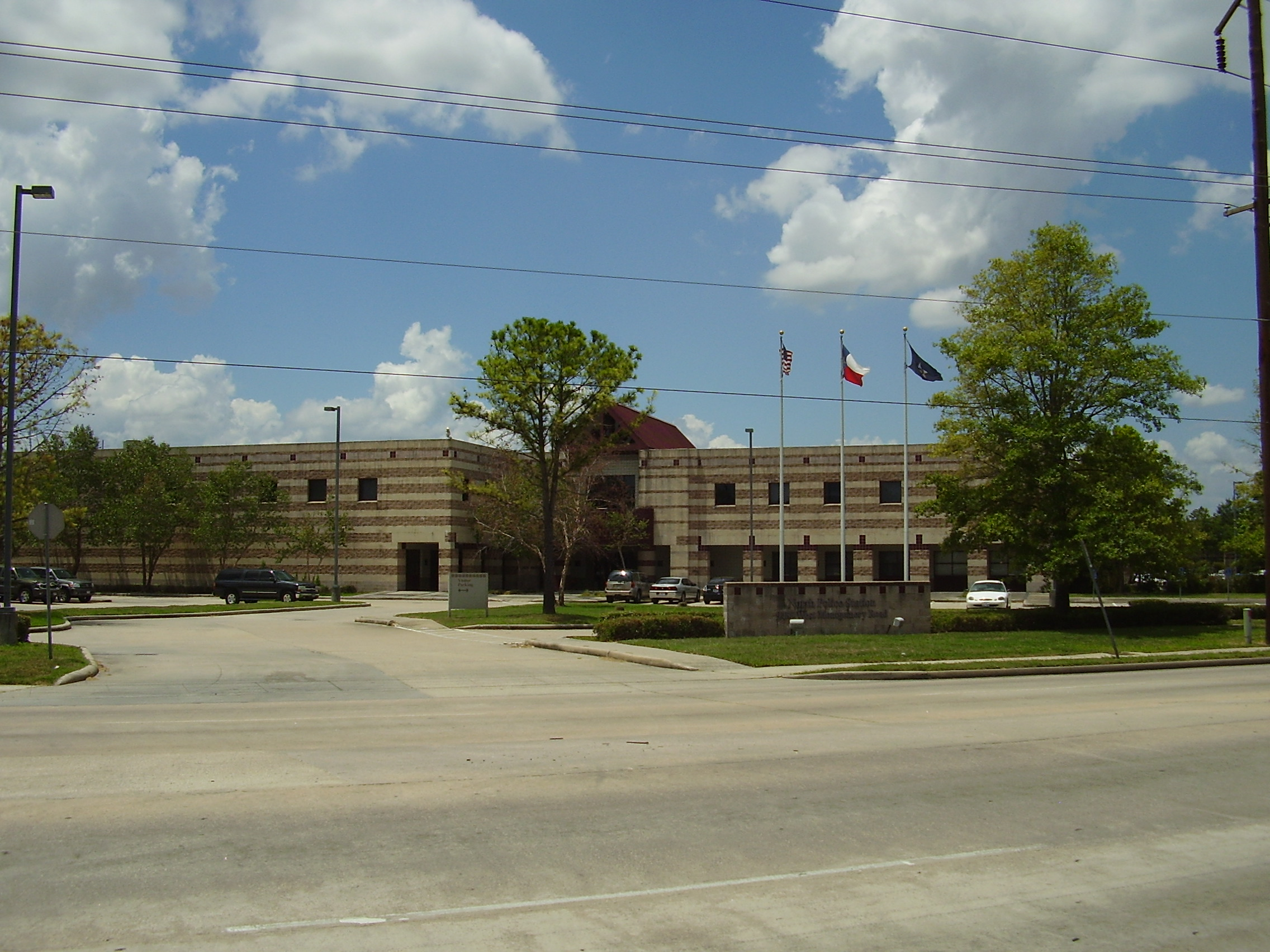 Houston North Police Substation